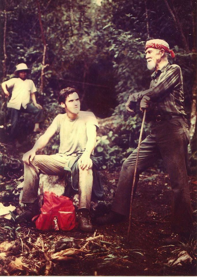 Victor Mills and his grandson Victor Tredwell during a hiking trip to Guatemala, November, 1973.